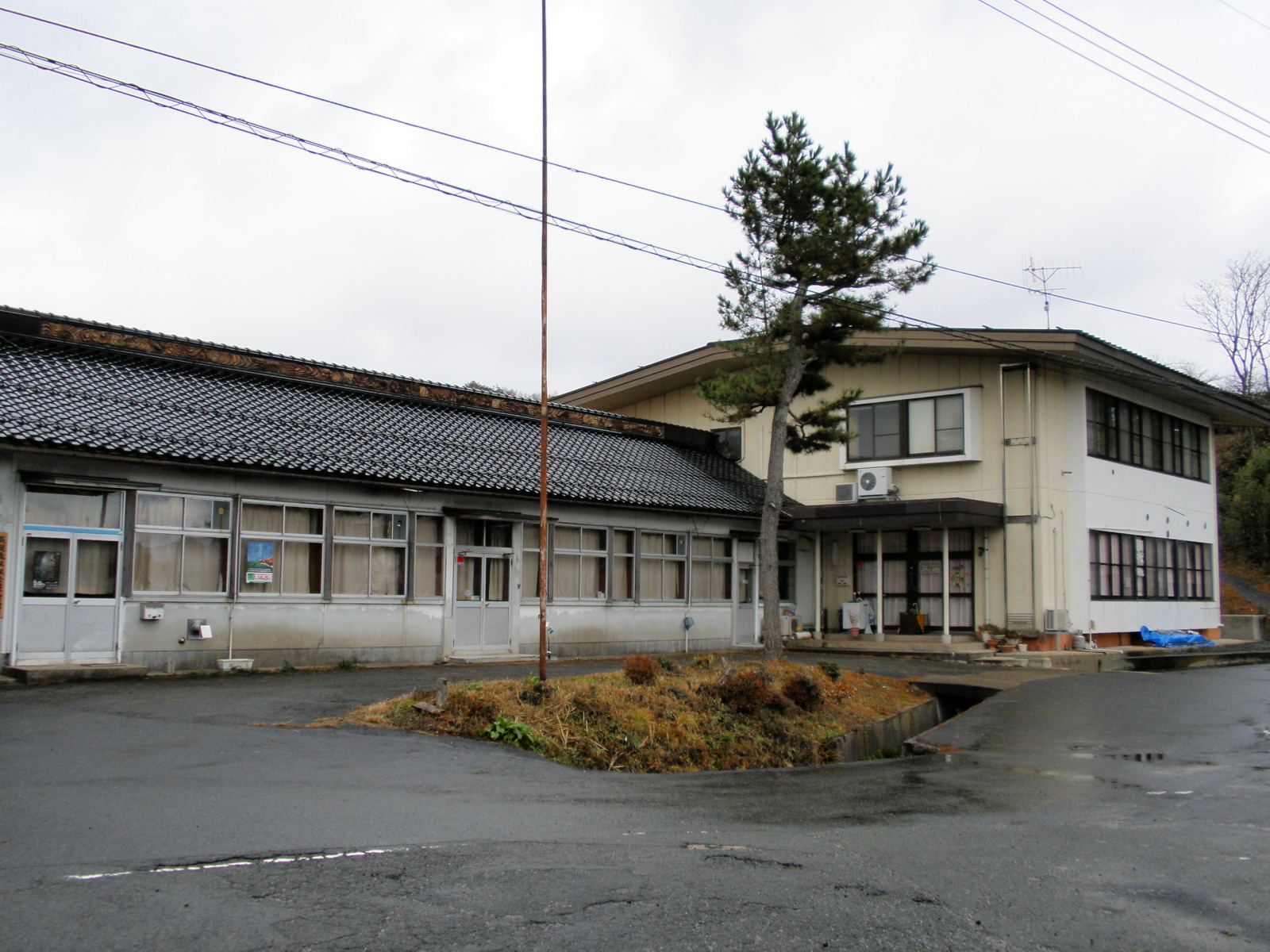 Maniwa forest association Hiruzen branch Former Kawakami village office, Maniwa district (1983.12 - 2005 3.30) Former Maniwa city office Hiruzen regional promotion bureau Kawakami branch (2005.3.31 - 2007)